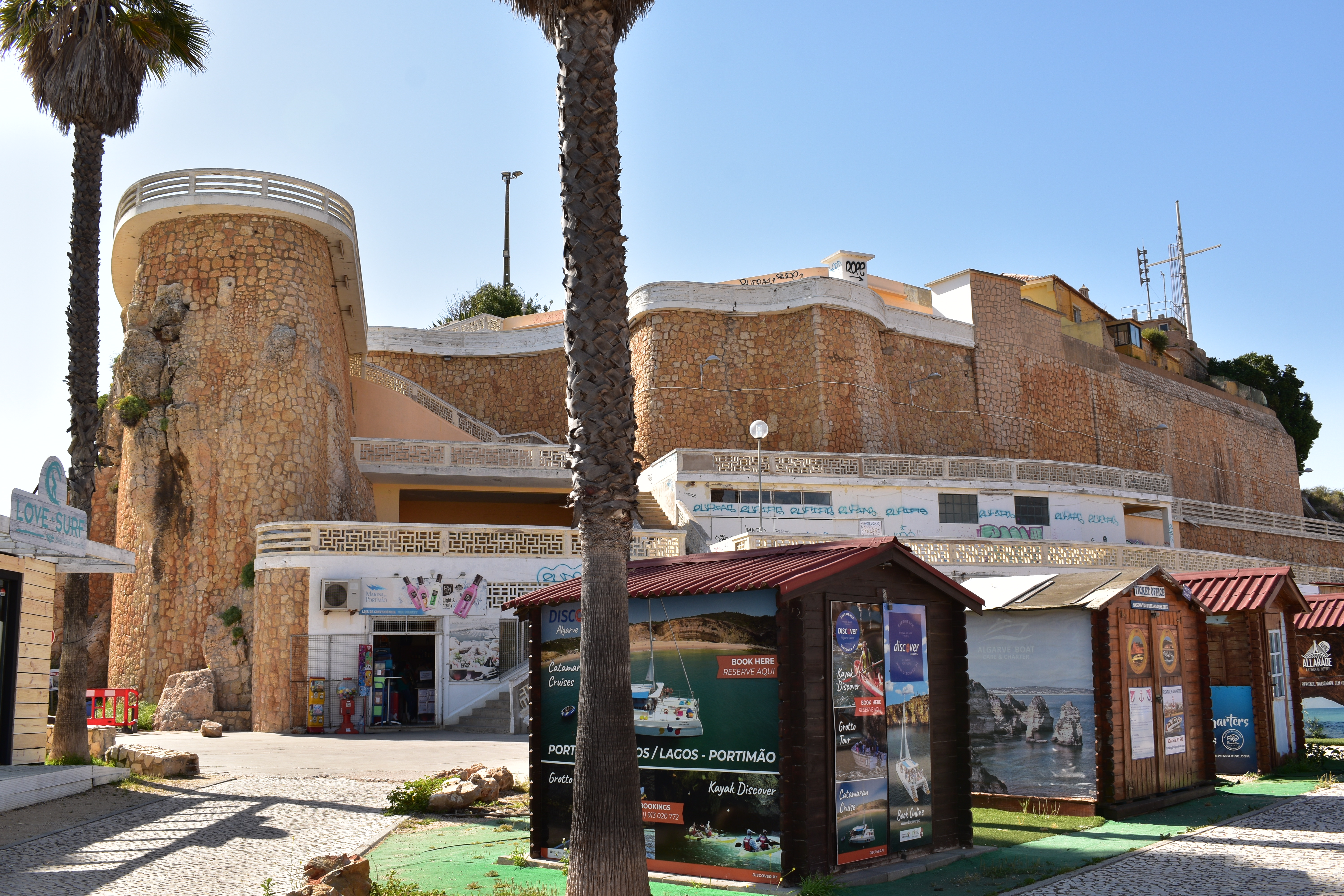 Side view of Santa Catarina's Fort in Portimão, Algarve - Southern Portugal.